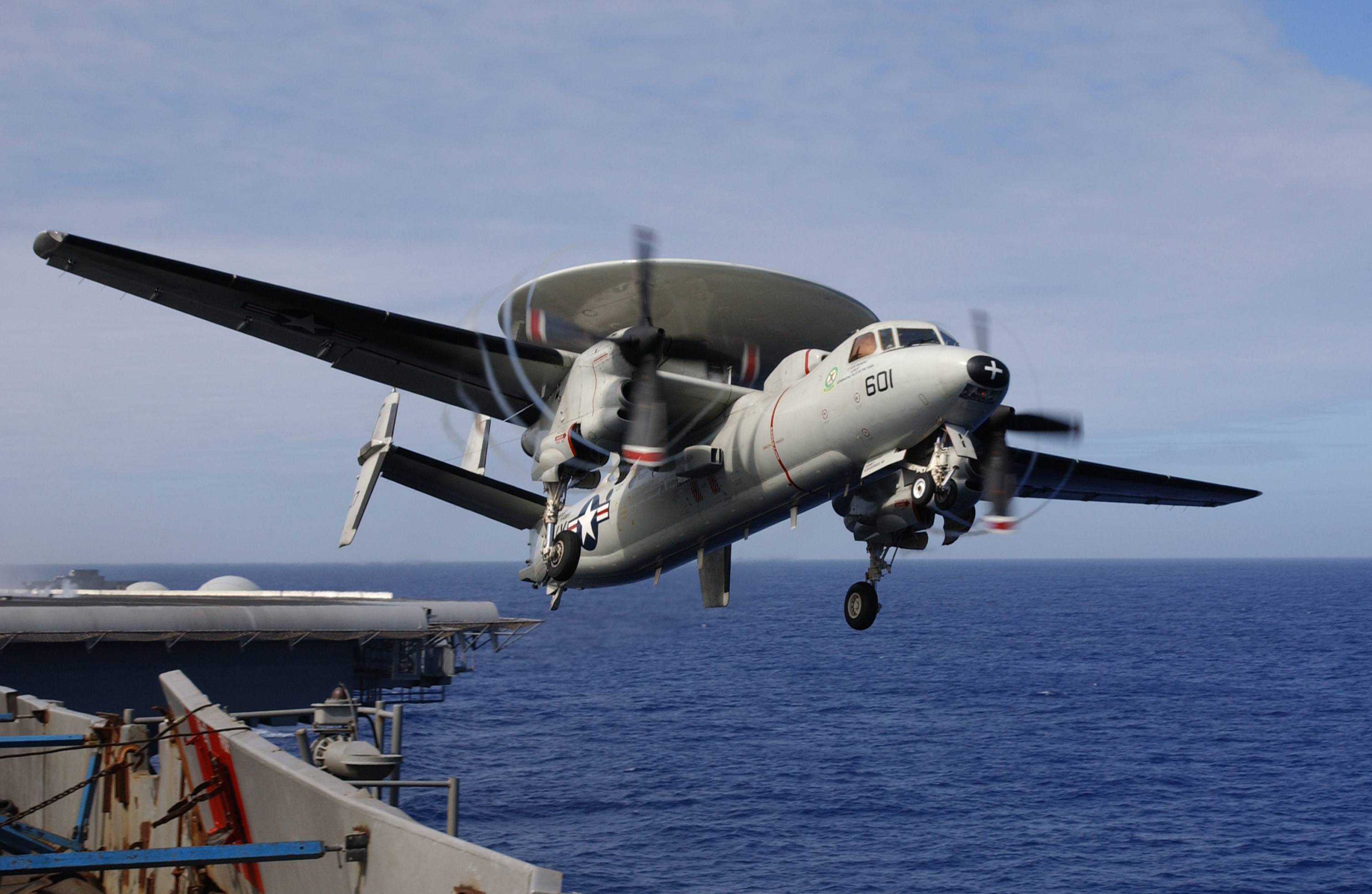 An E-2C Hawkeye assigned to the VAW-115 “Liberty Bells” is taking off from USS Kitty Hawk (CV-63)